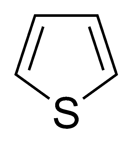 Chemical structure of thiophene, a simple aromatic ring